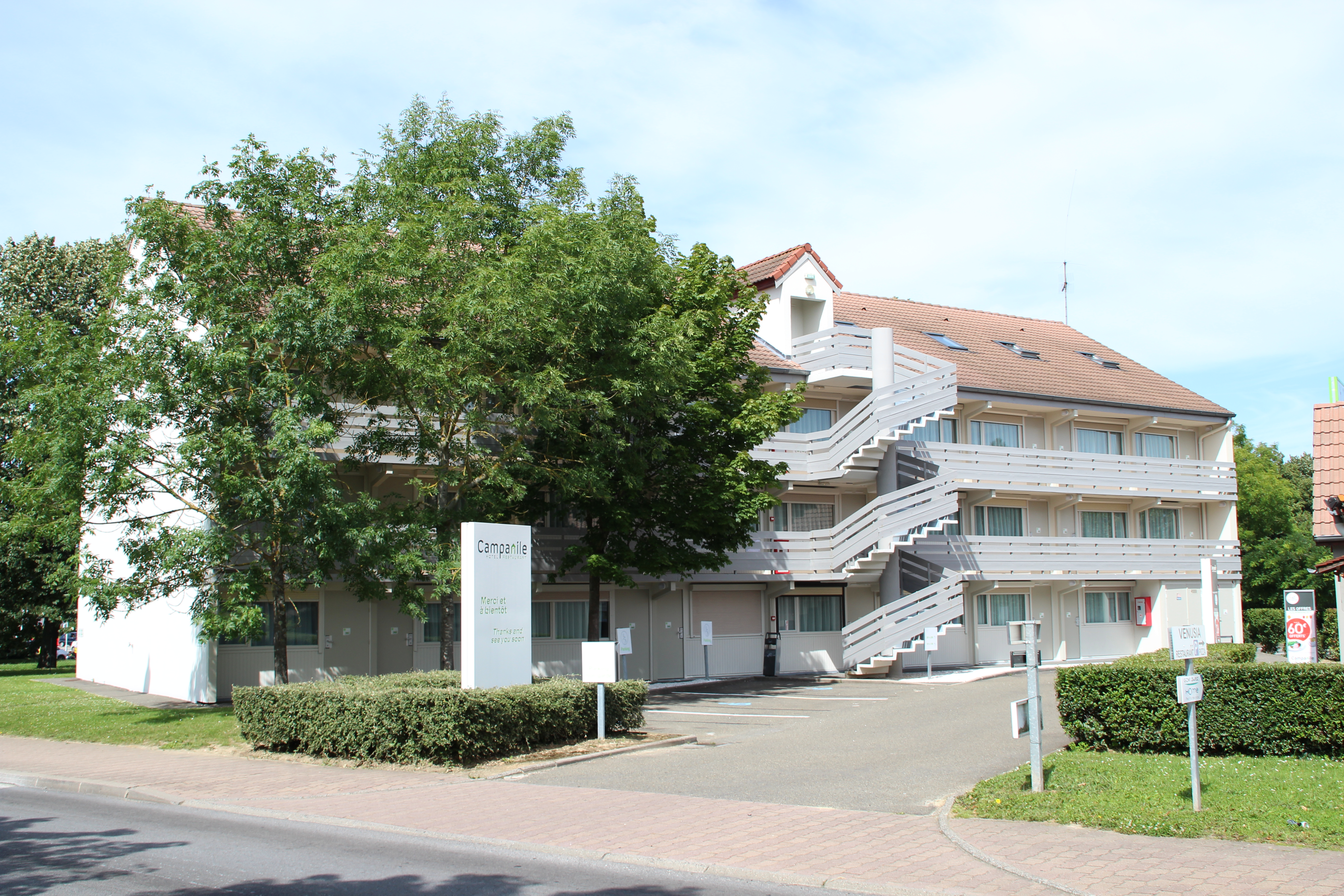 Voisins-le-Bretonneux, France.